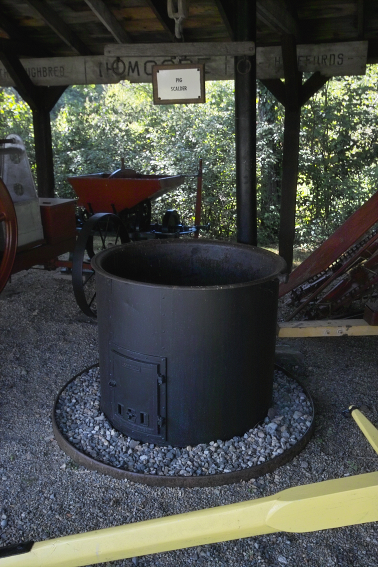 picture of a pig scalder from Willowbrook Museum Village in Newfield, Maine, USA